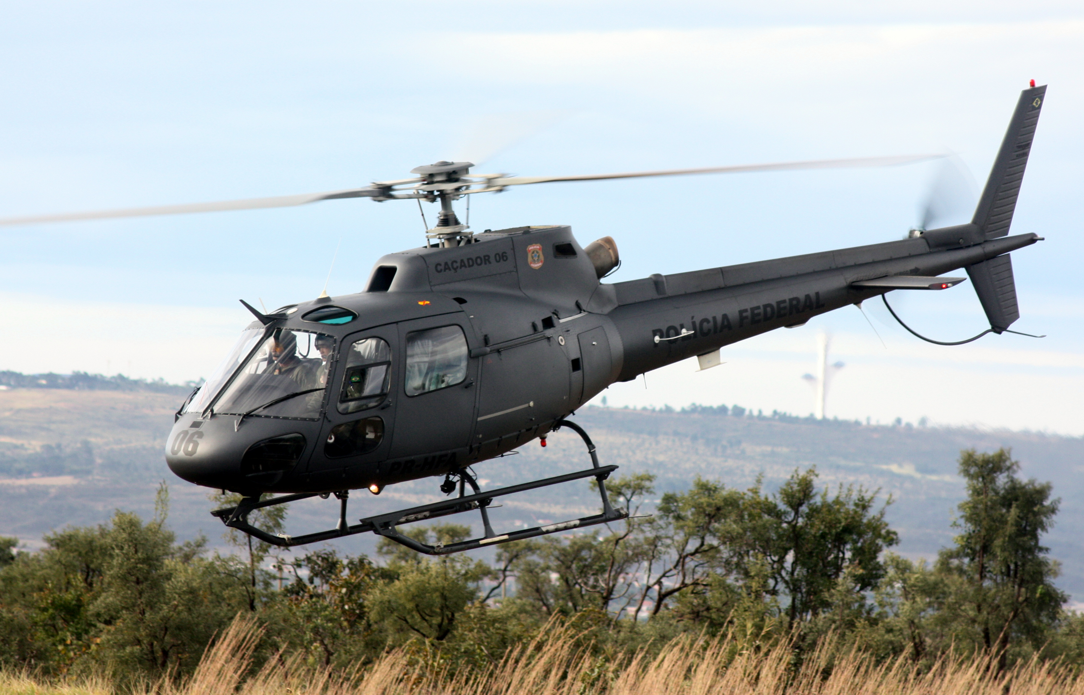 Helicóptero da Polícia Federal do Brasil.